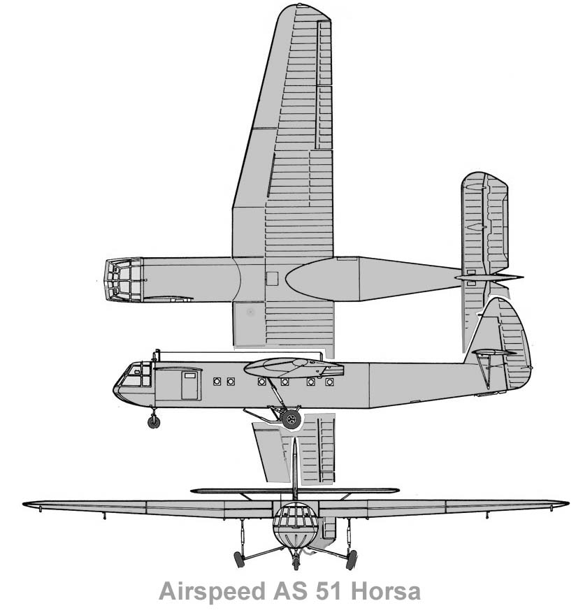 Three-view drawing of the Airspeed AS51 Horsa military transport/assault glider, made using Photoshop CS